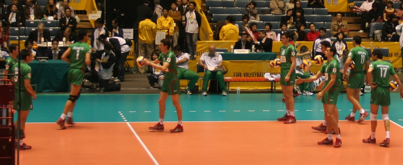 Volleyball World Cup 2006 in Japan. Players from Bulgaria preparing for their semi-final against Poland.